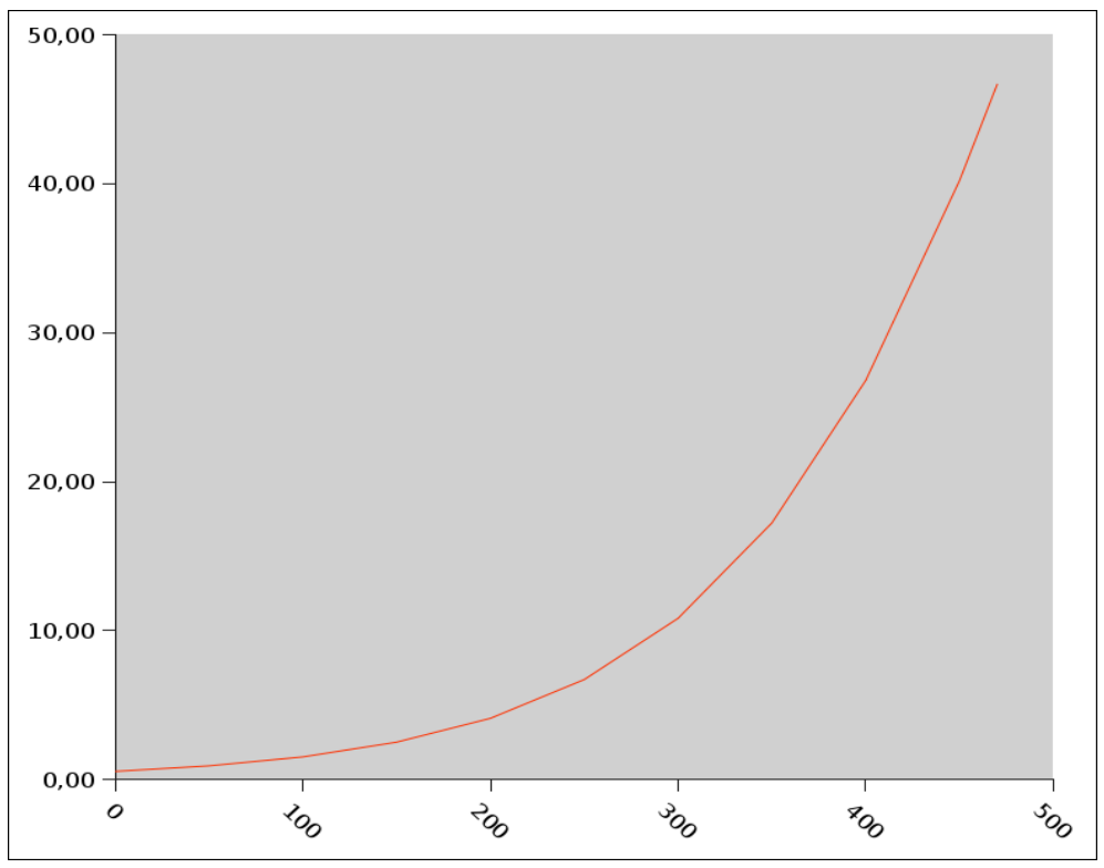 Estimated propability of death or non-fatal myocardial-infarction over one year corresponding ti selectet values of the individual scores. Ordinate: individual score, abscissa: Propability of death or non-fatal myocardial infarction in 1 year (in %)